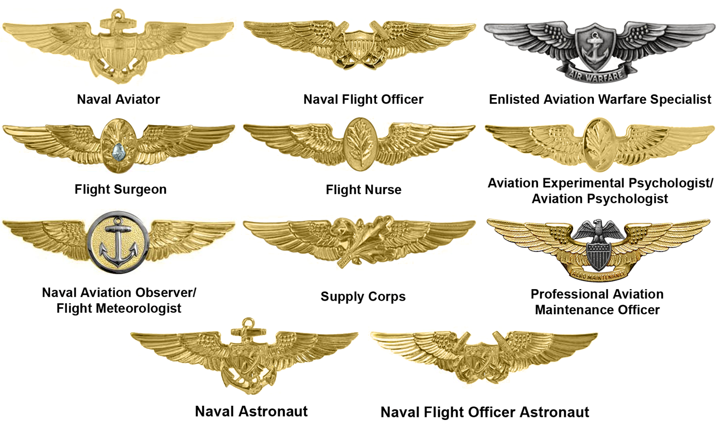 Image of Aviation Warfare insignia used in the US Navy